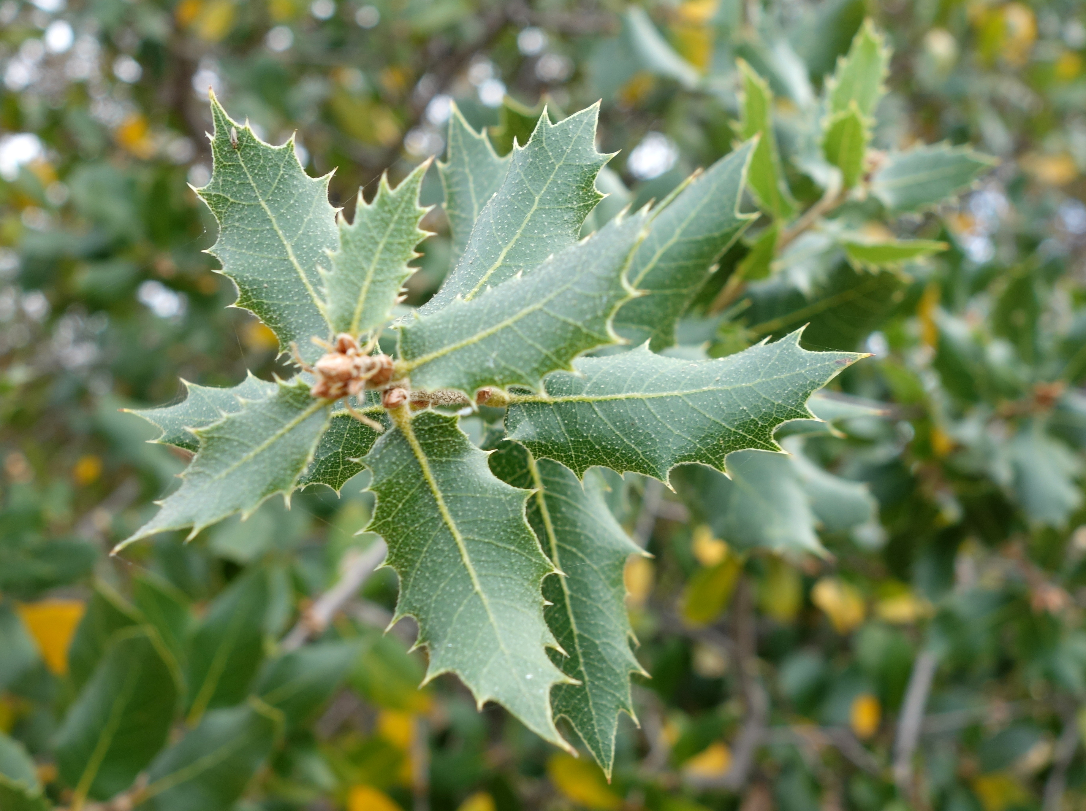 Botanical specimen in the McConnell Arboretum & Botanical Gardens, in Turtle Bay Exploration Park, Redding, California, USA.